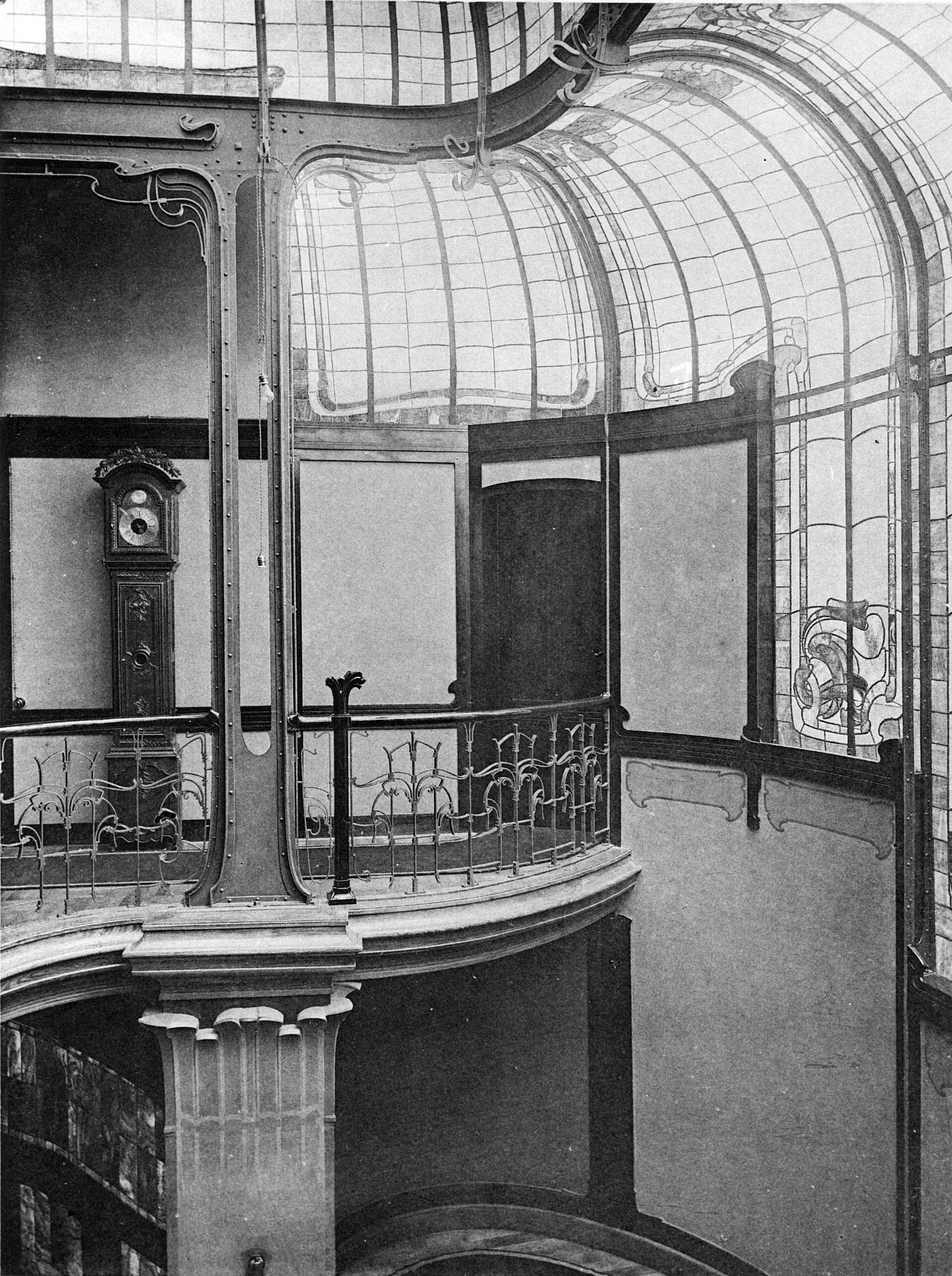 Hall (upper part) in the Hôtel Aubecq (building destroyed, Brussels)